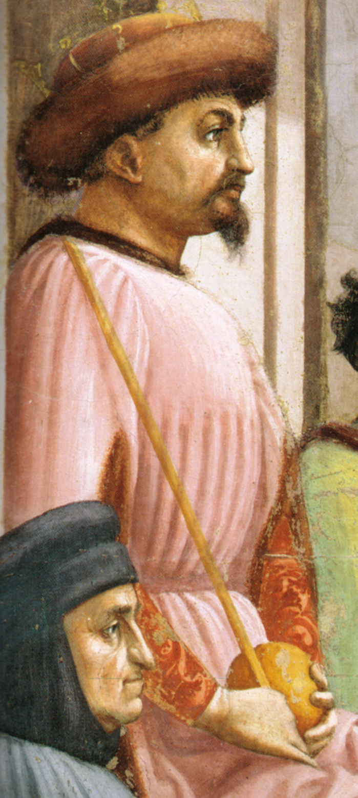 Raising of the Son of Teophilus and St. Peter Enthroned